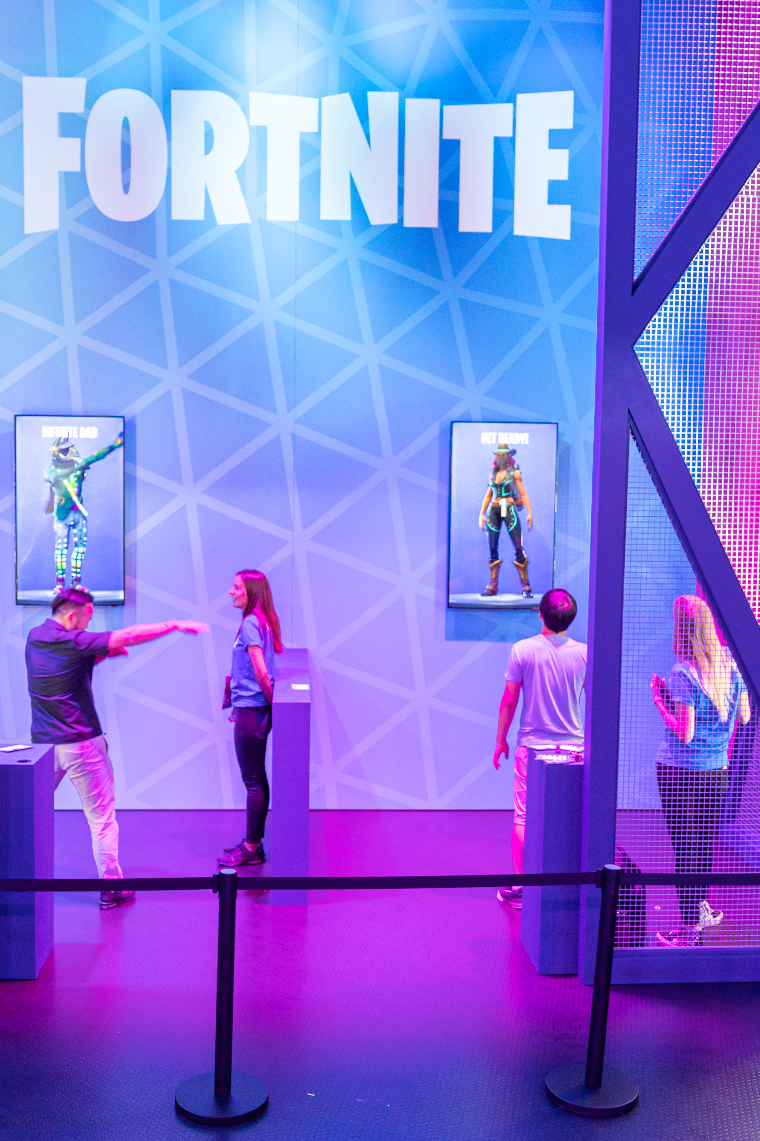 Facebook Fortnite Dance Gamescom 2019